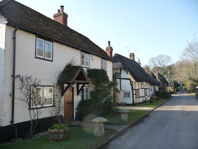 Wherwell - Church Street Looking down Church Street away from the church.